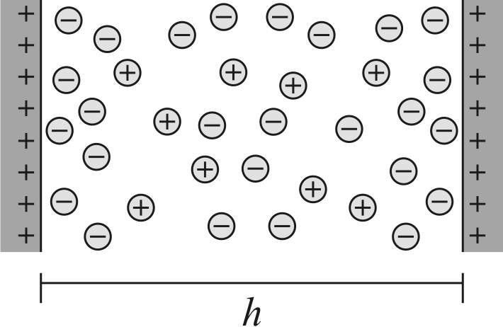 Double Layer Forces Scheme Plates